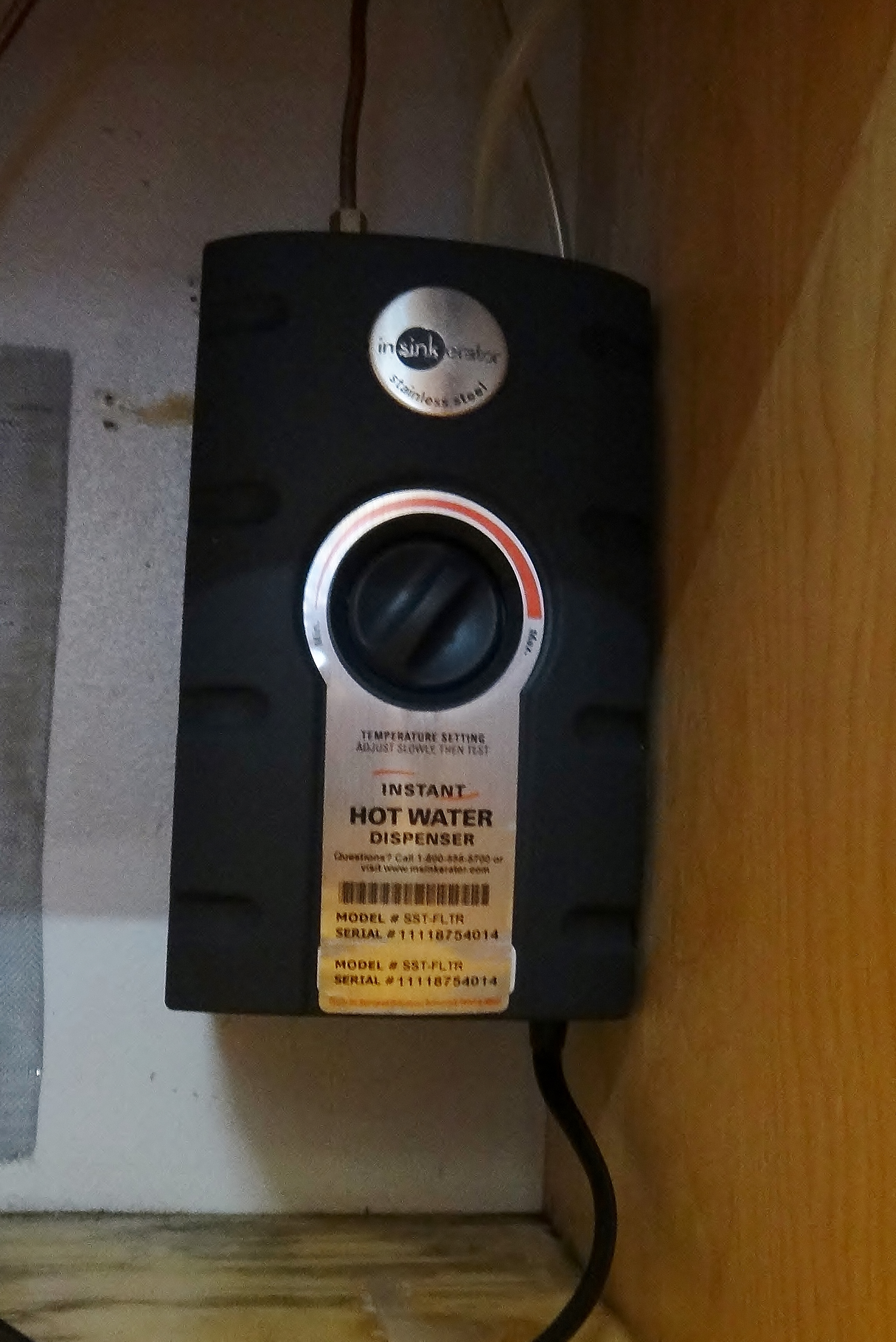 Replaced the leaky instant hot water dispenser today. AMAZING to realize how dependent we are on it, especially with a ramen head in the house.